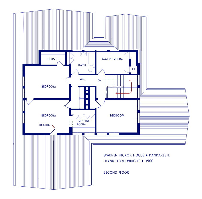 Second floor plan of the Warren Hickox house, Kankakee IL, designed by Frank Lloyd Wright in 1900. After Wasmuth plate XXIV.